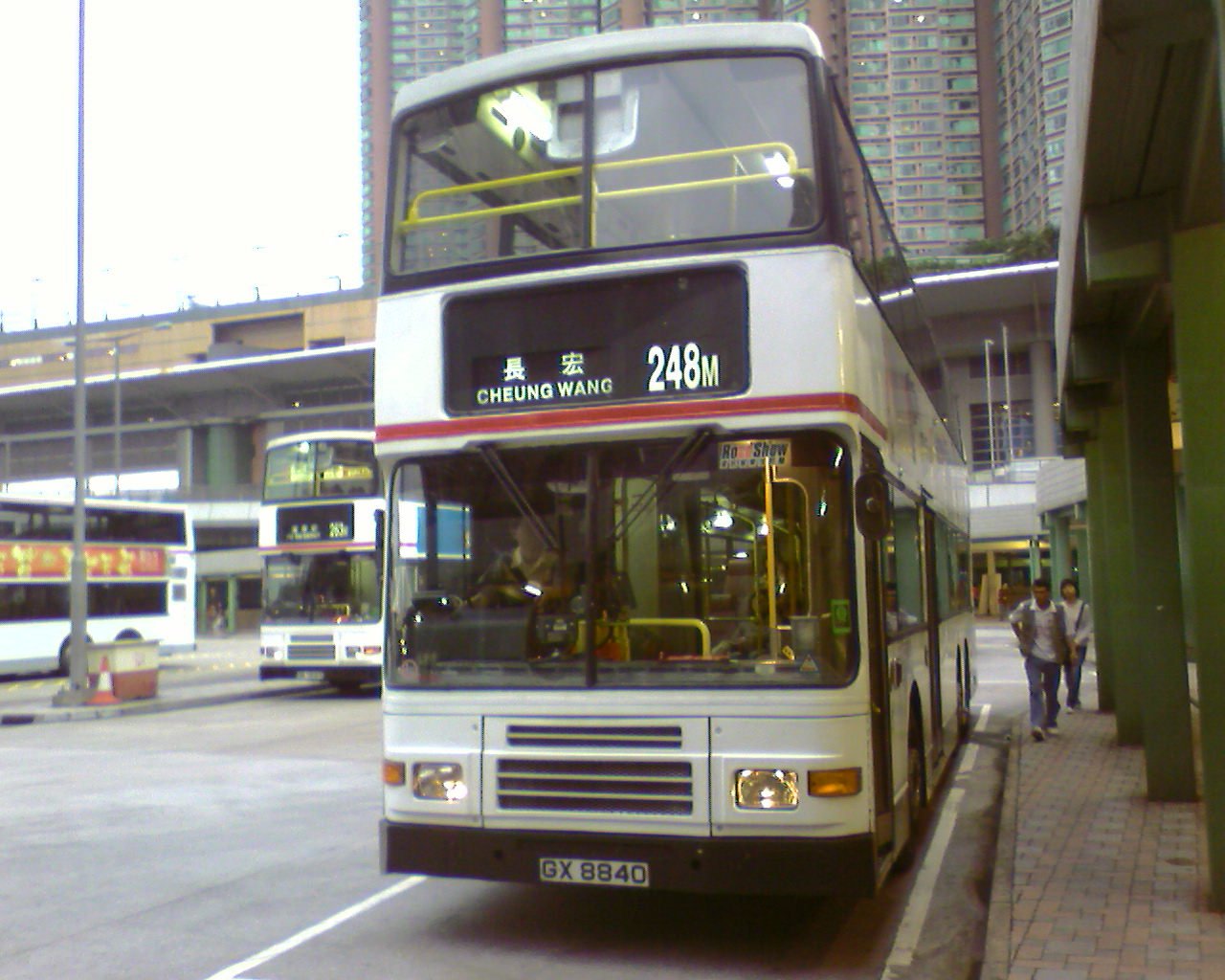 KMB route 248M bus, picture taken at Tsing Yi Station bus terminus.